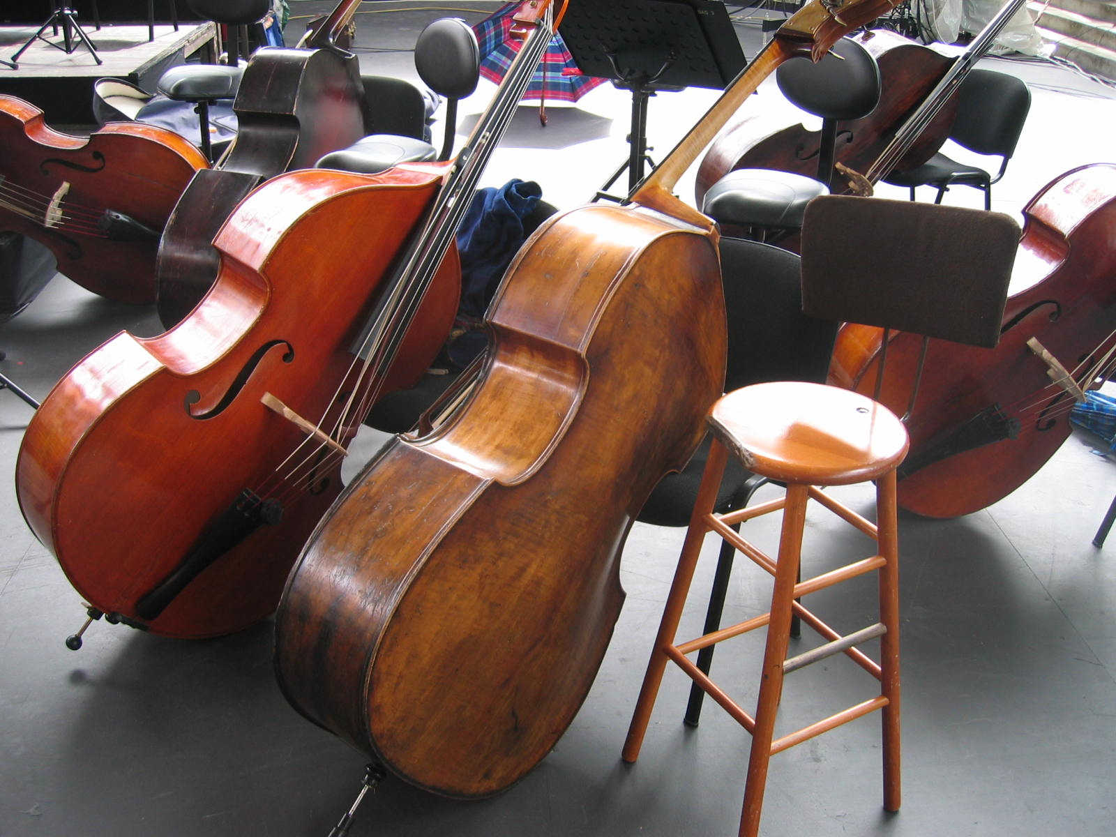 Double basses